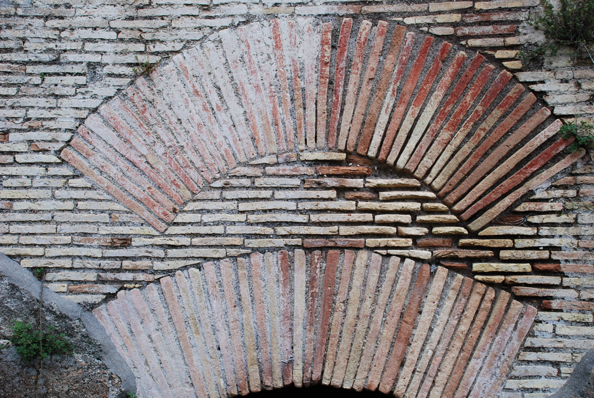 Ostia antica (archaeological site)